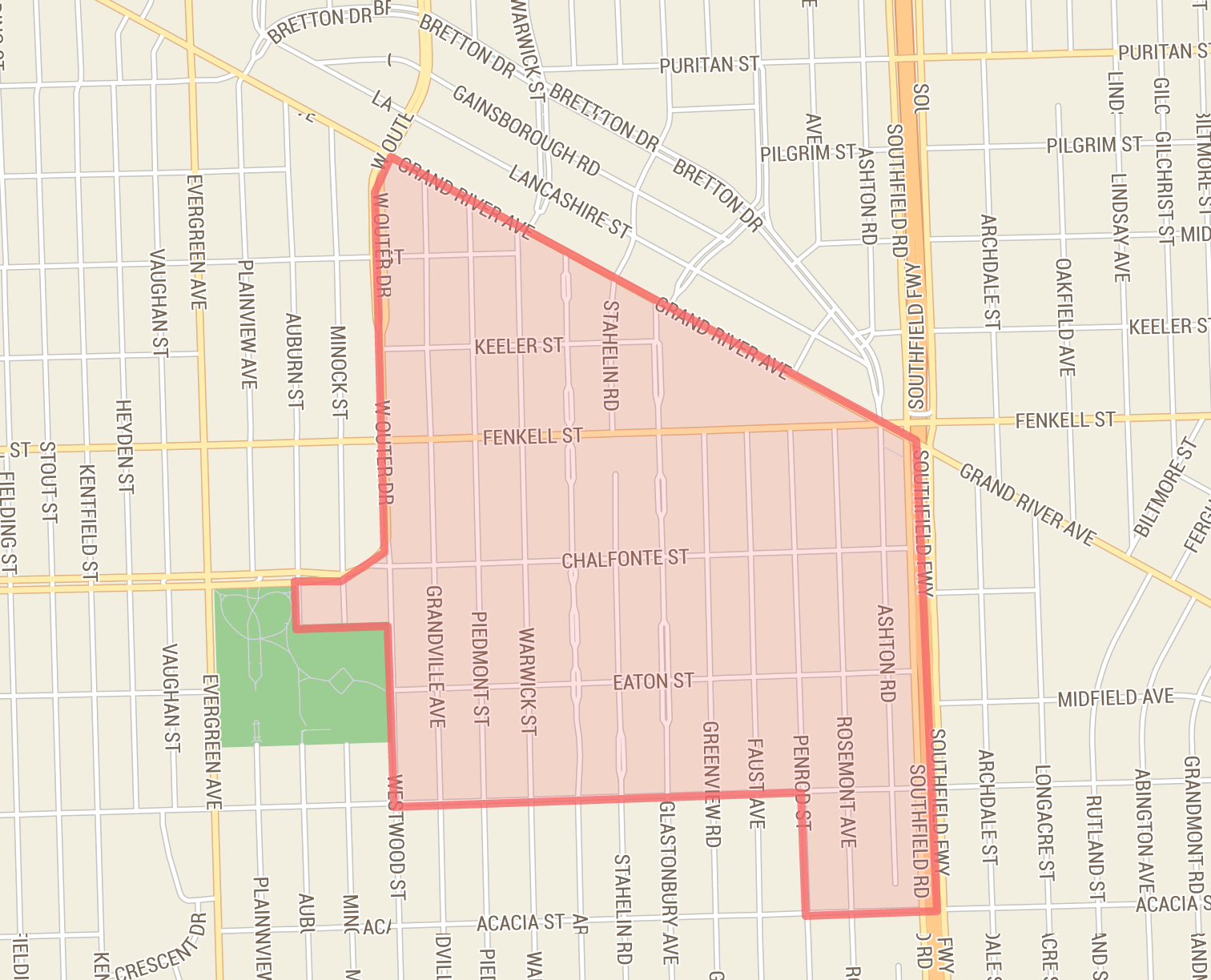 Map displays neighborhood bounds of Rosedale Park in Detroit Michigan